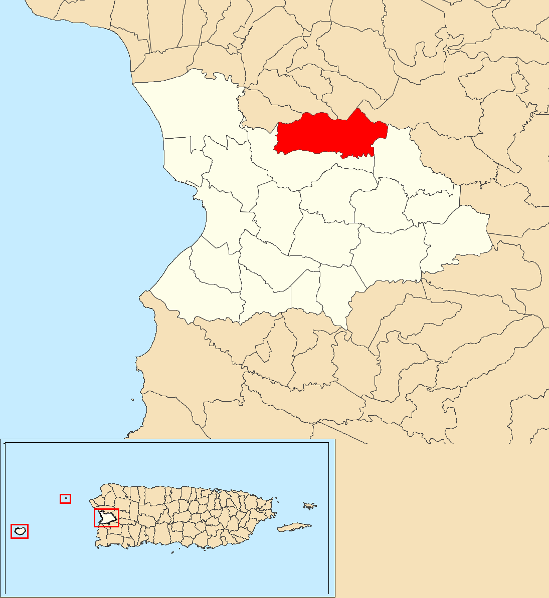 Leguísamo, Mayagüez, Puerto Rico locator map